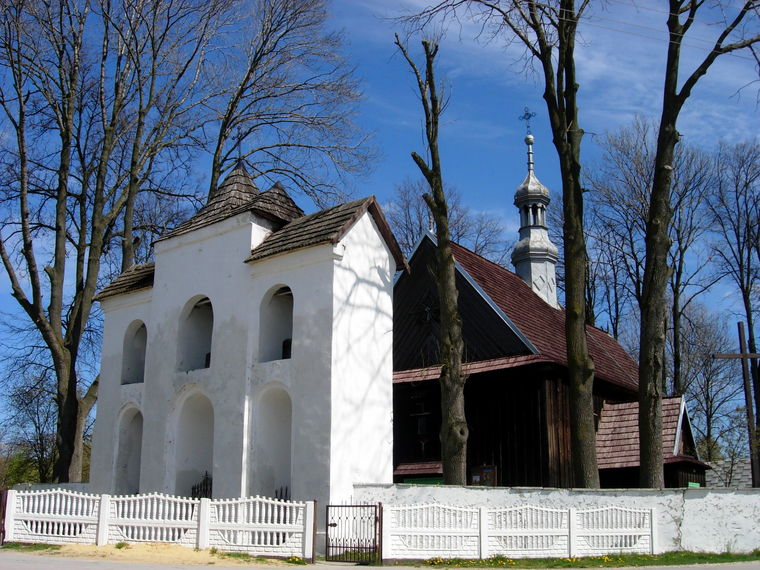 The wooden church of Saint Mary Magdalene in Chomentów, Poland